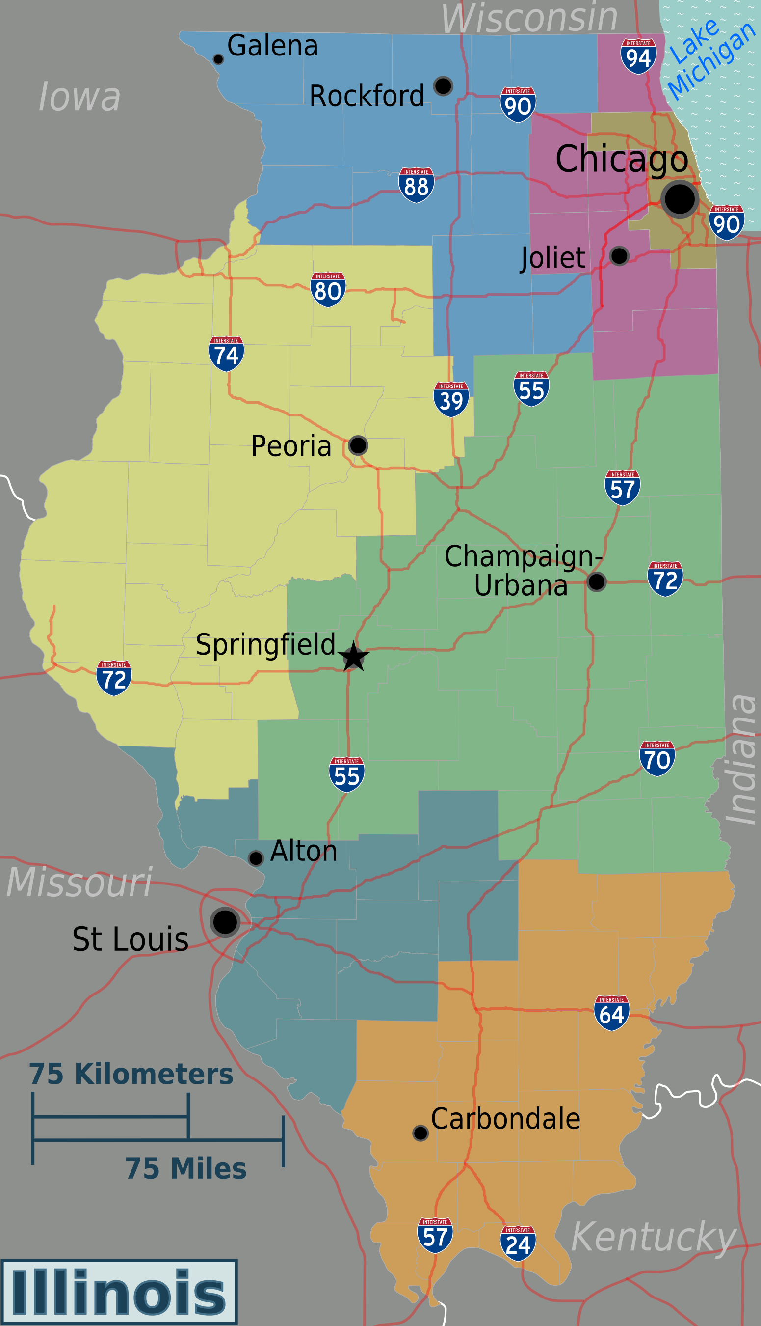 Illinois regions map for use on Wikivoyage, English version